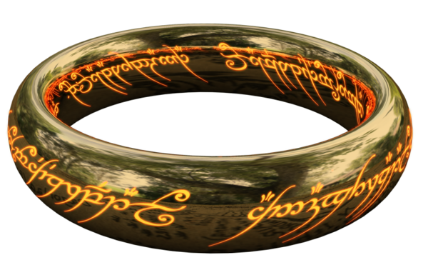 One Ring my interpretation of the Lord of the Rings One Ring, Originally created for Lord of the Rings Wiki and part of it's logo